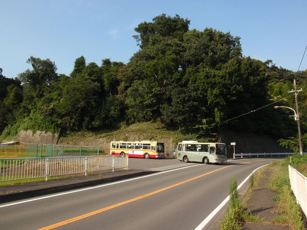 Oi Town,Kanagawa Fujikyu M5965 KK-MJ23HE Kanako Ka1016 KL-MP35JM